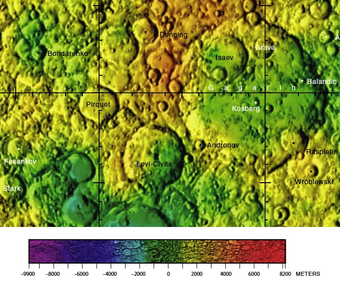 Part of the USGS far side lunar chart